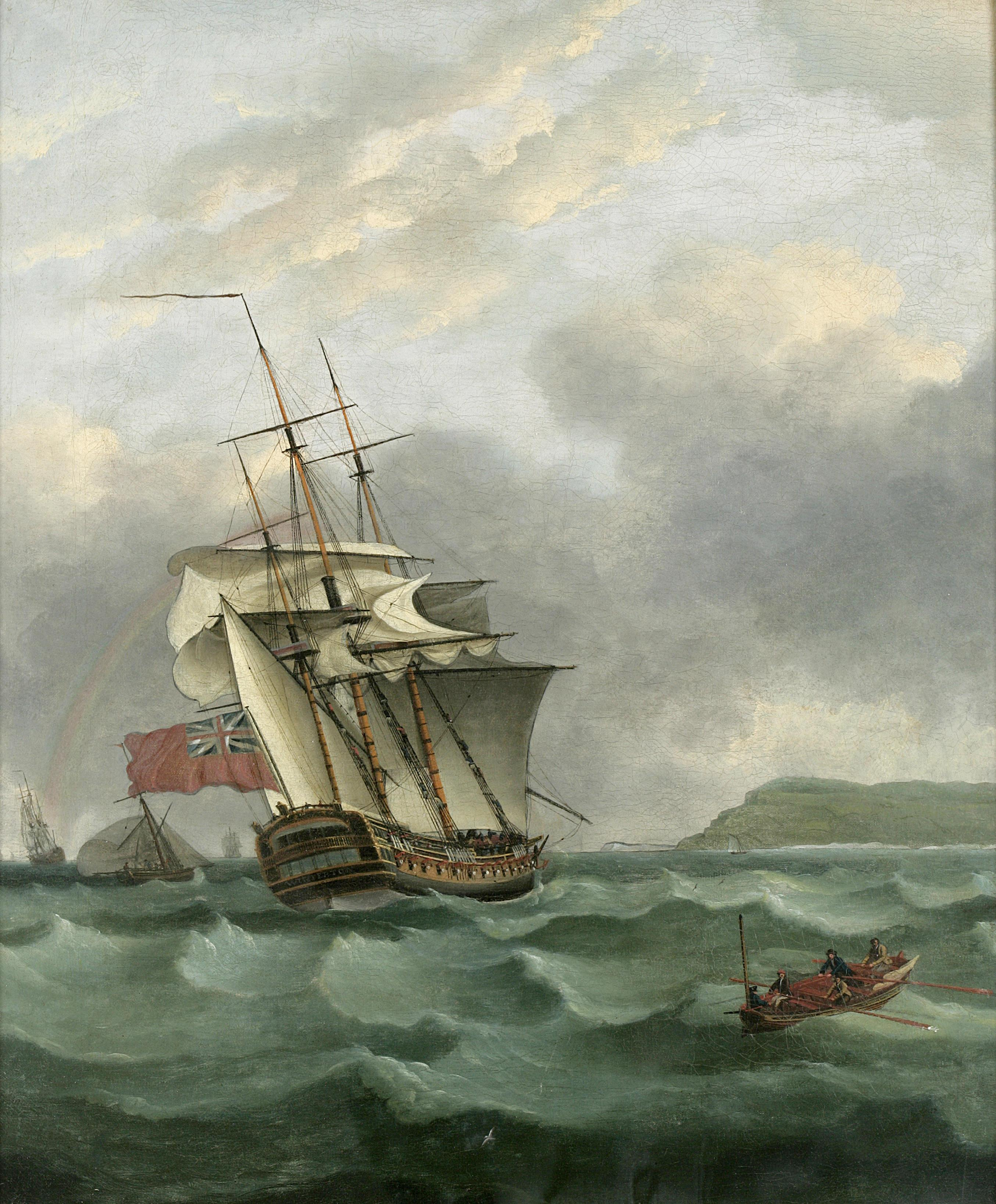 H.M.S Winterton Approaching Dover, by Thomas Whitcombe. Most likely painted in 1795